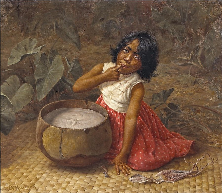 A Kamaaina by Grace Hudson, painting #196, oil on canvas, 24 x 28 in.